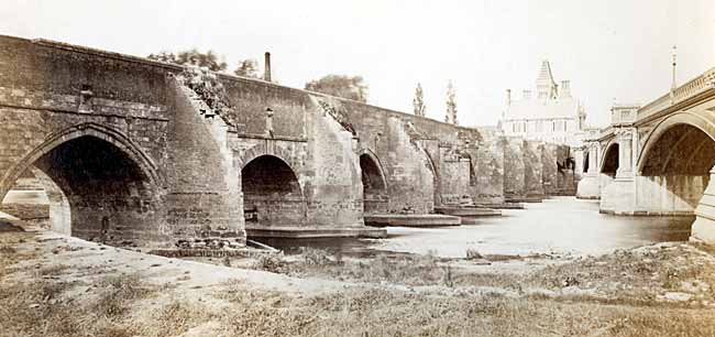 Old (left) and new (right) Trent Bridges in Nottingham, pictured in 1871